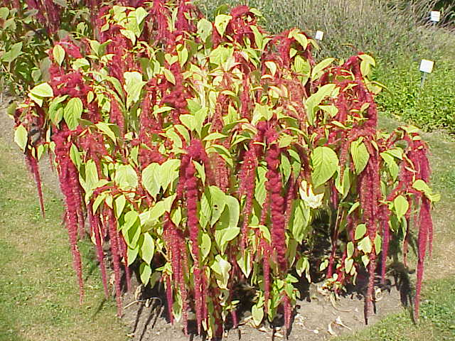 Species: Amaranthus caudatus Family: Amaranthaceae Image No. 2